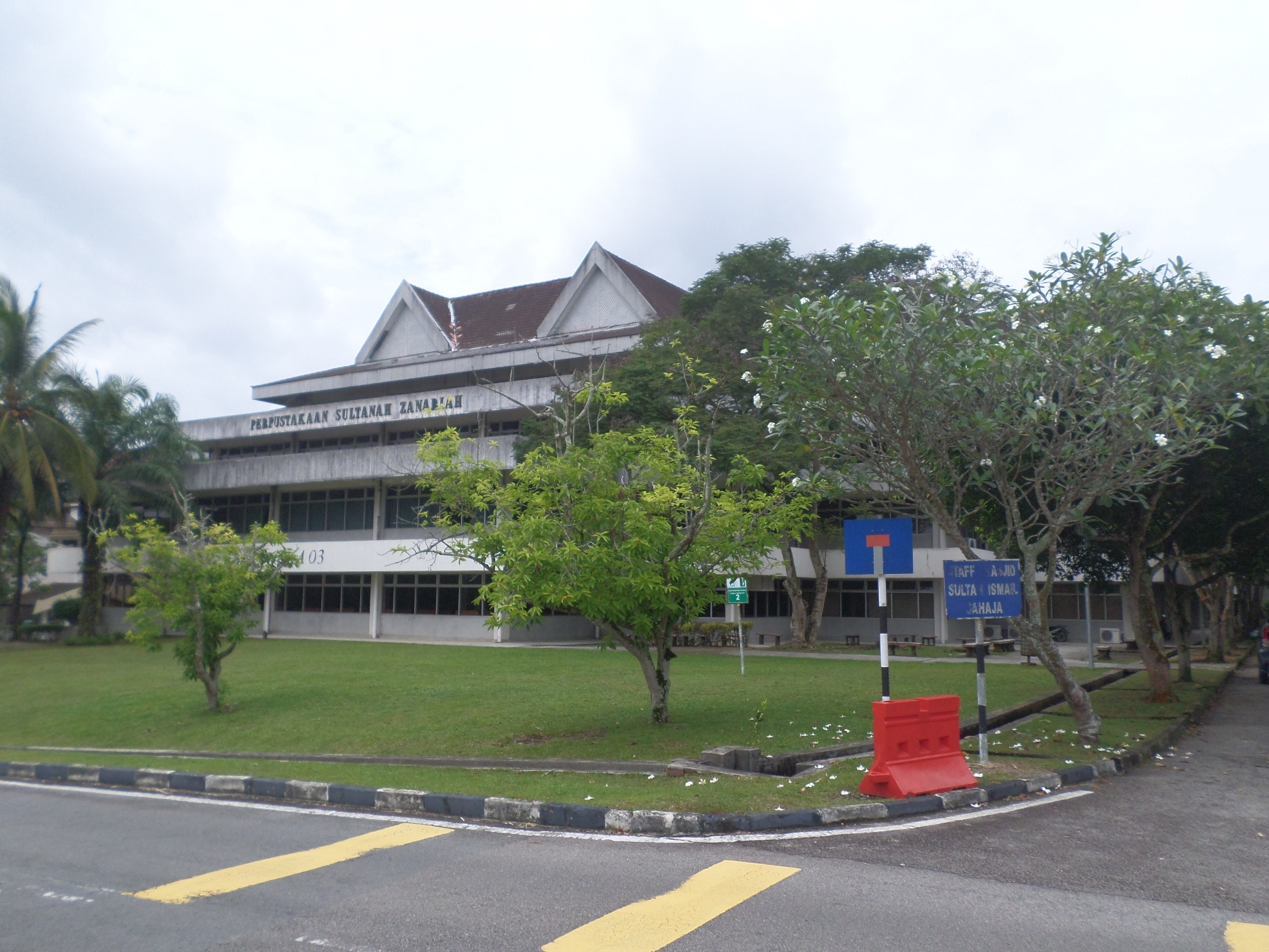 Sultanah Zanariah Library, Malaysia University of Technology, Skudai, Johor Bahru, Johor, Malaysia